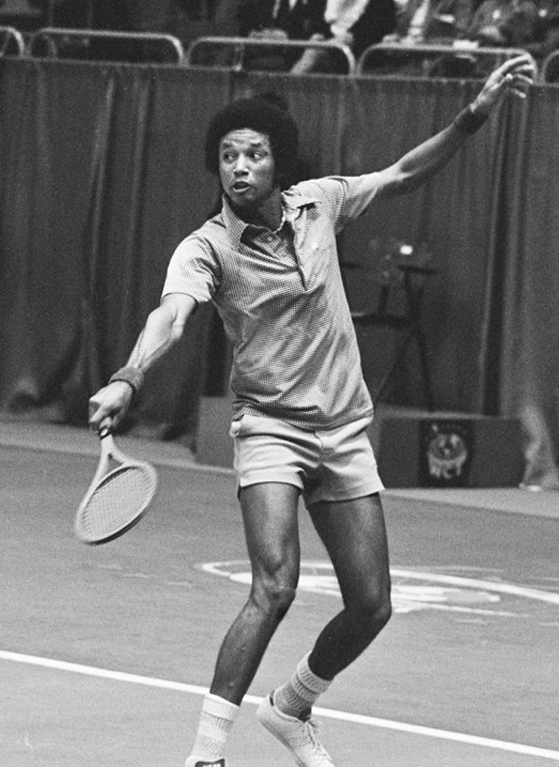 American tennis player Arthur Ashe at the 1975 World Tennis Tournament in Rotterdam.